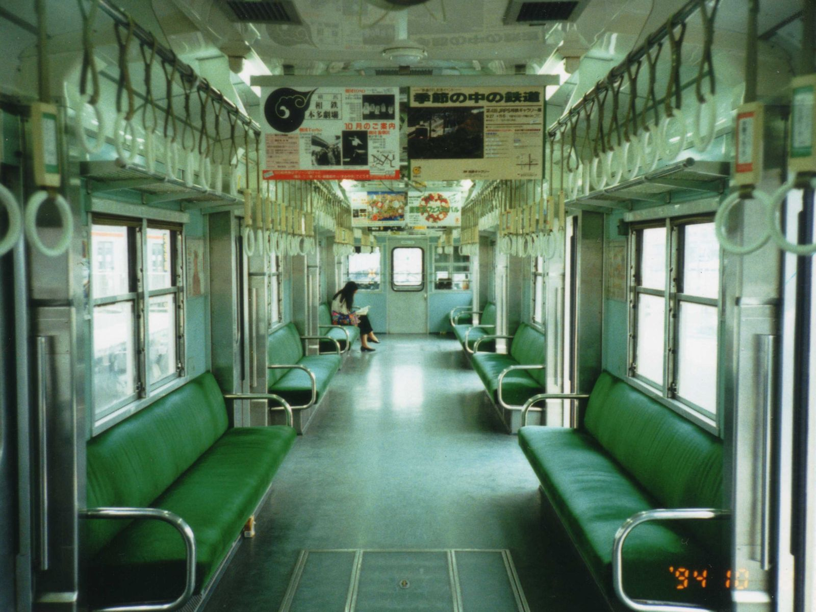 Inside of Sagami Railway(Sotetsu), EMU Type 6000 No.6021.